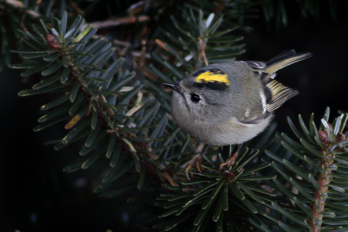 This subspecies 'sikkimensis' of Goldcrest is photographed from Pangolakha Wildlife Sanctuary in Sikkim from GoingWild's (w wildlife tour on 07.11.2018.